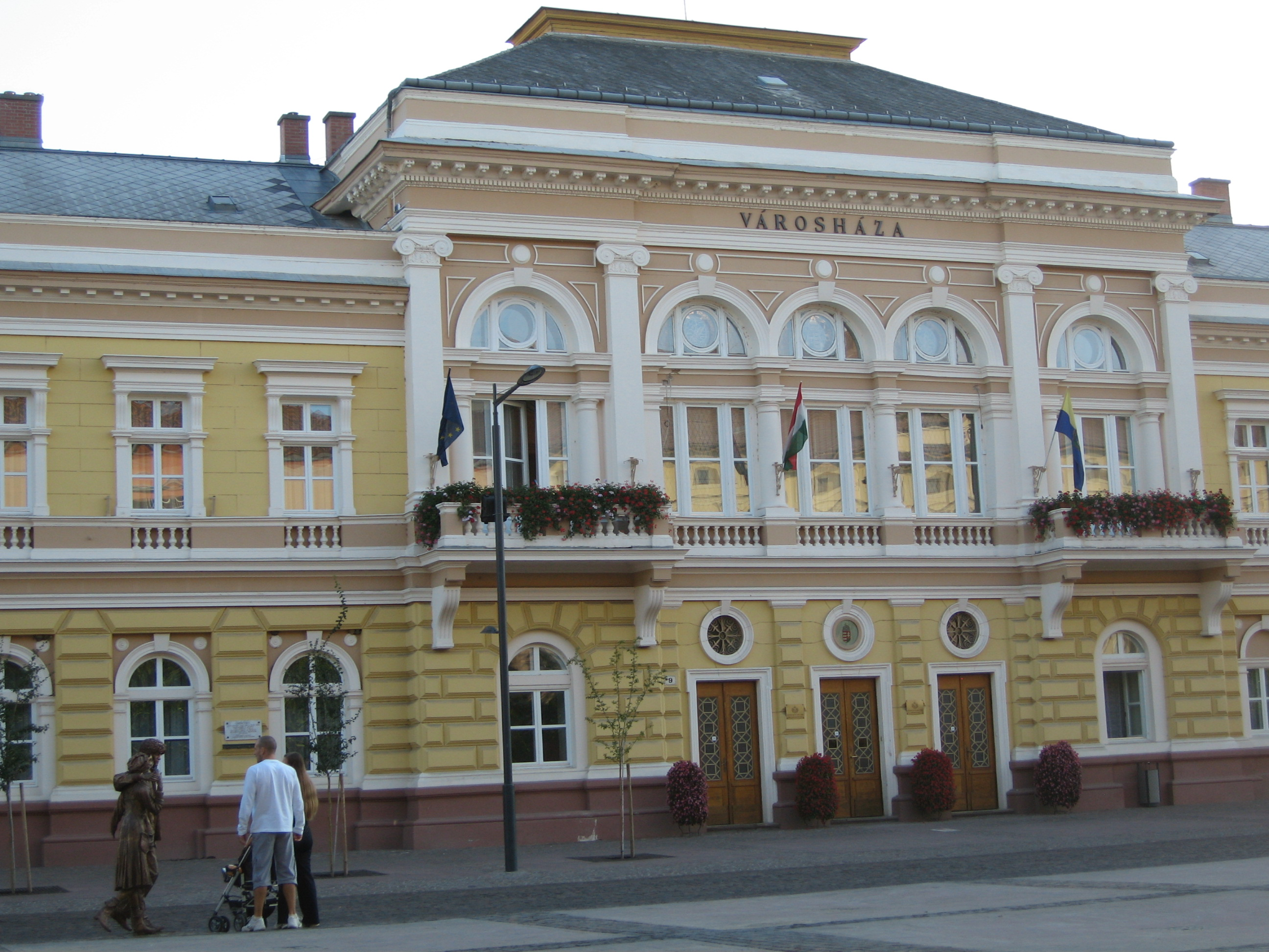 Szolnok Town Hall